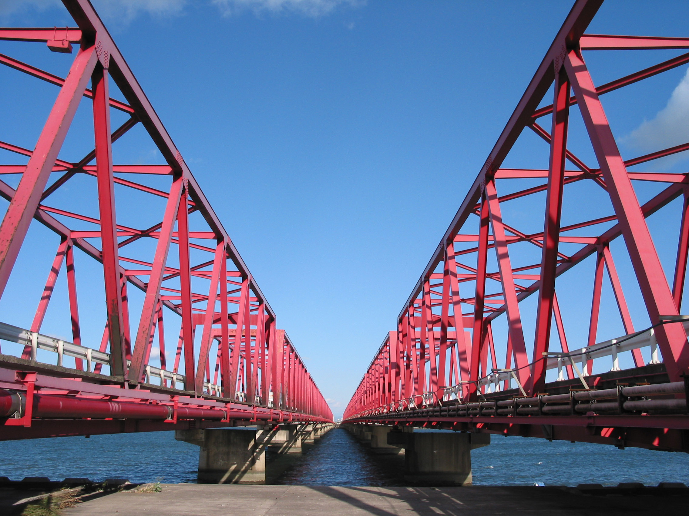 Kisogawa-ohashi (bridges across the Kiso-river) of Route 23 (Japan) 国道23号線木曽川大橋